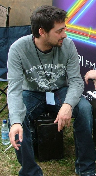 Colin Murray